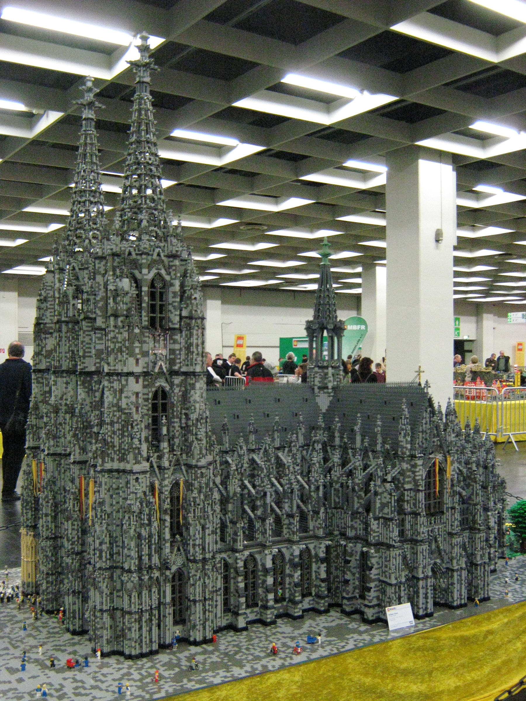 LEGO model of the Cologne cathedral, build by Jürgen Bramigk, he needed 2 years time and about 900.000 bricks.